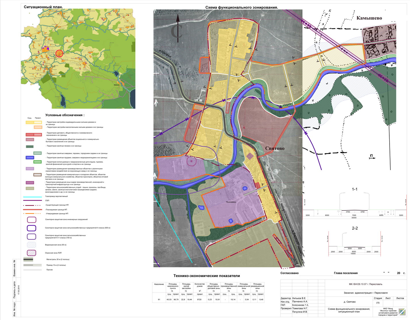 General plan of Nagorye rural settlement (Yaroslavl Oblast) 2008. Svyatovo.